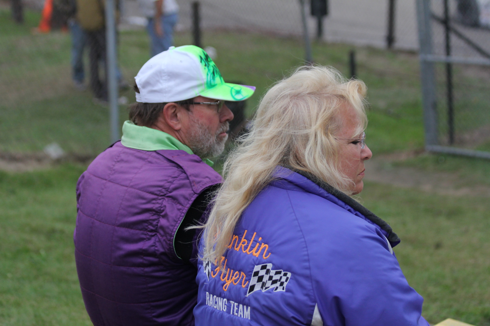 NASCAR driver Bill Prietzel with his wife Jan watching the races at La Crosse.